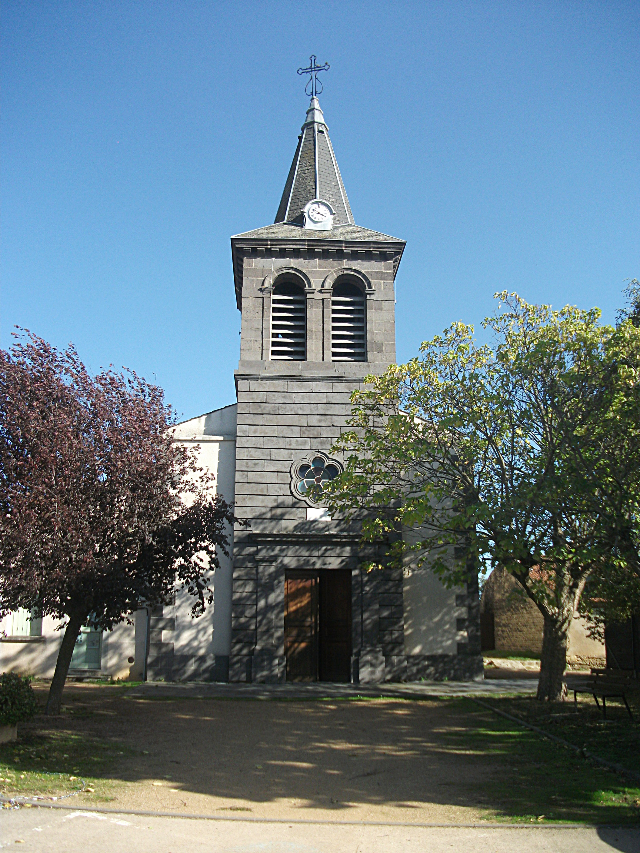 Church of Chavaroux, Puy-de-Dôme, Auvergne-Rhône-Alpes, France. [19300]